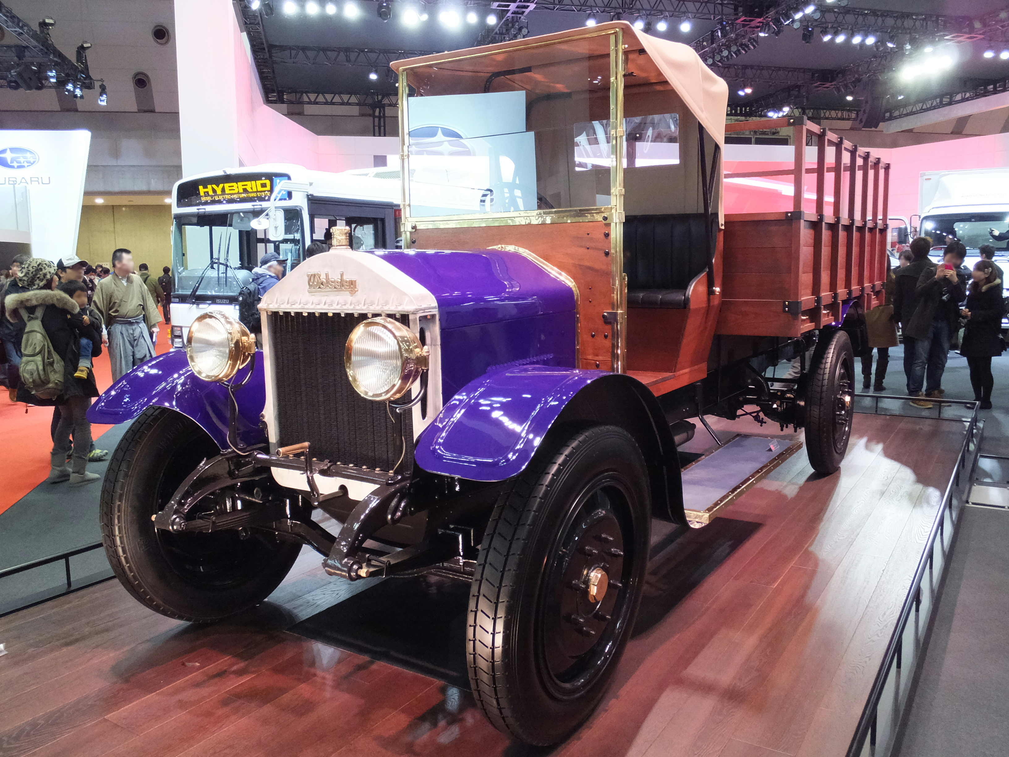 ISUZU, Wolseley, CP 1.5-ton Truck, Front (1924 knock down), at Tokyo Motor Show 2013